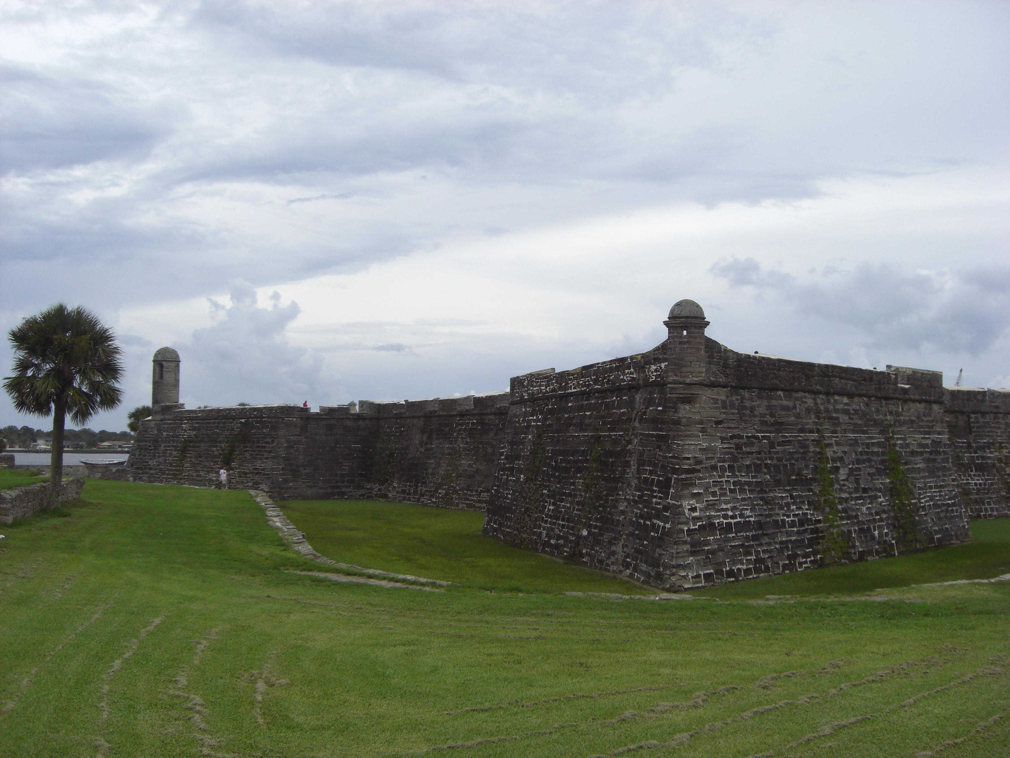 Castillo de San Marcos, St. Augustine, Florida, USA